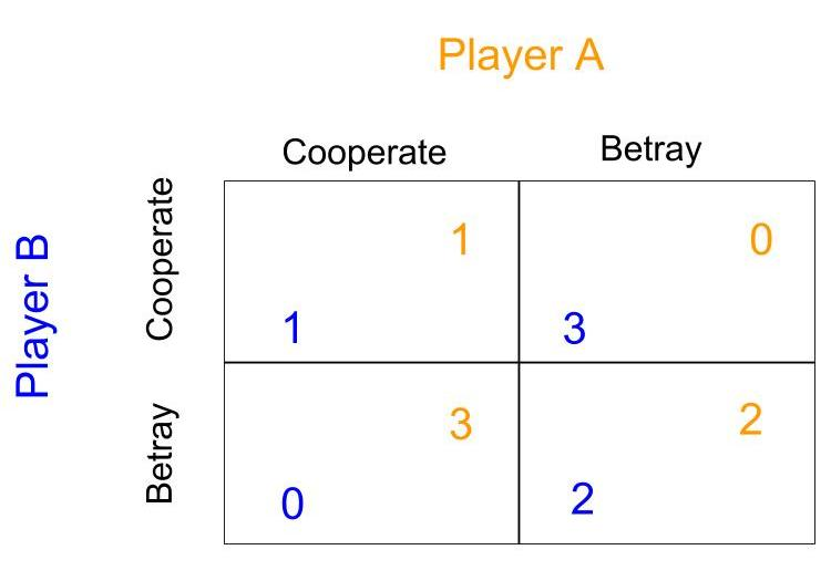 Prisonner's dilemma